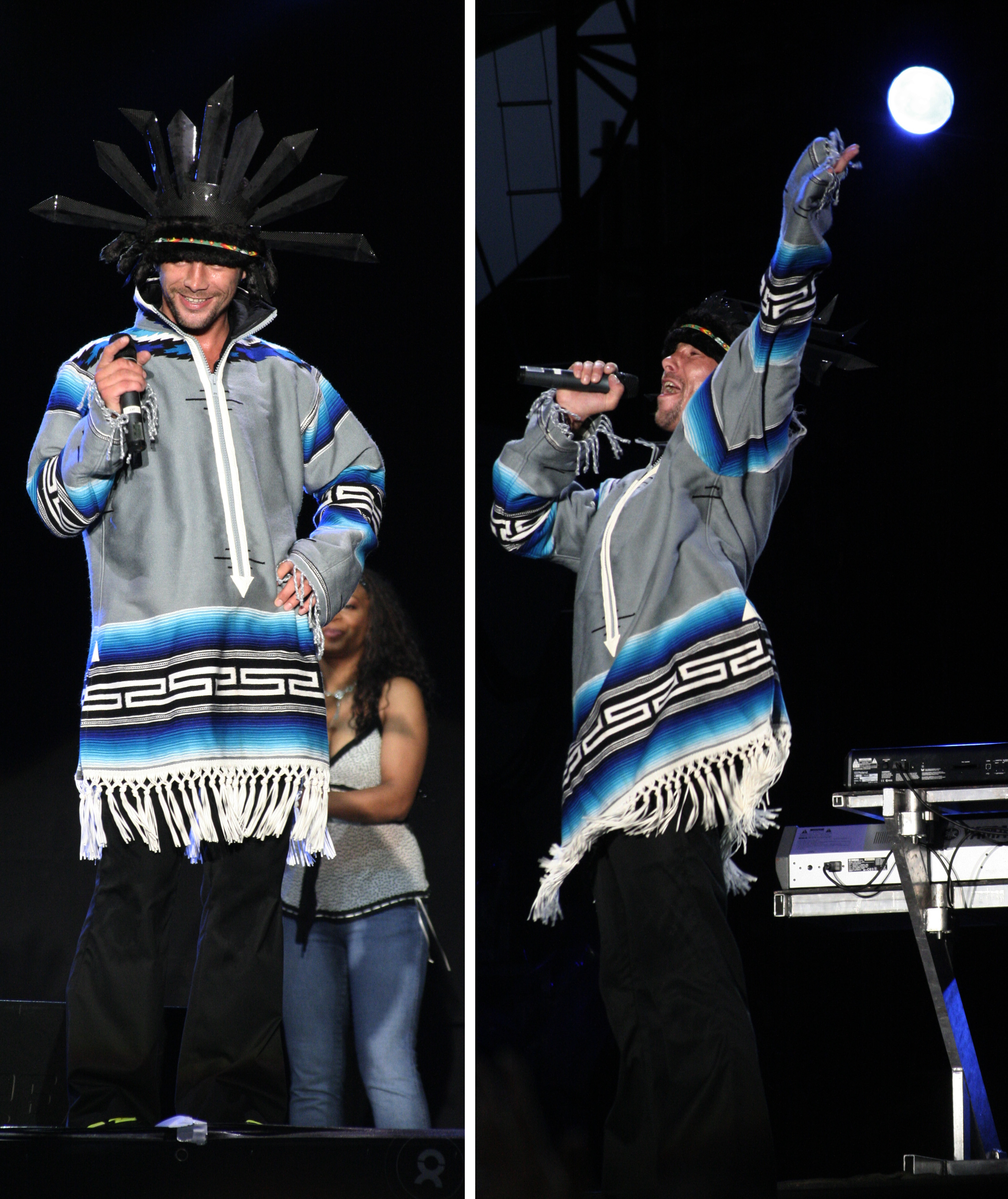 Jason Kay wearing his feather headdress